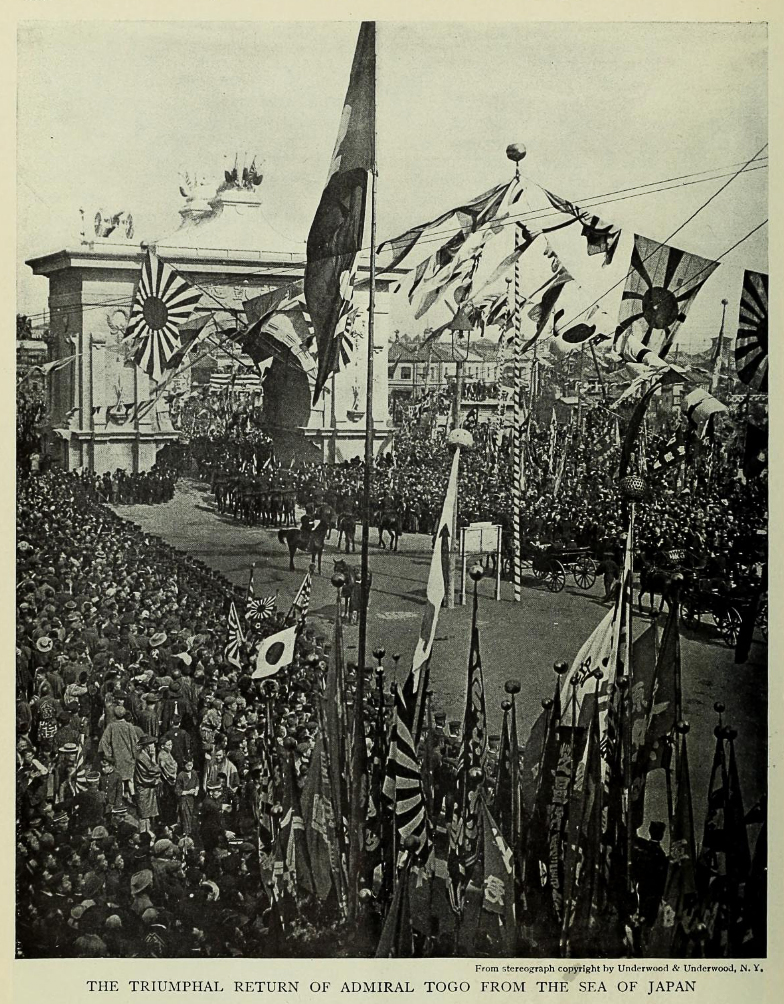 "The Triumphal Return of Admiral Togo From the Sea of Japan"（1907）.